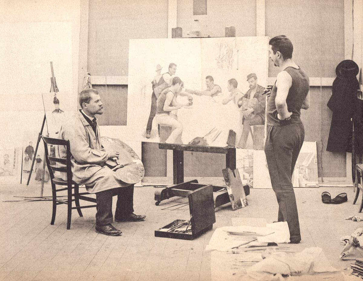 Studio of the painter Emile Friant in 1887 or just before